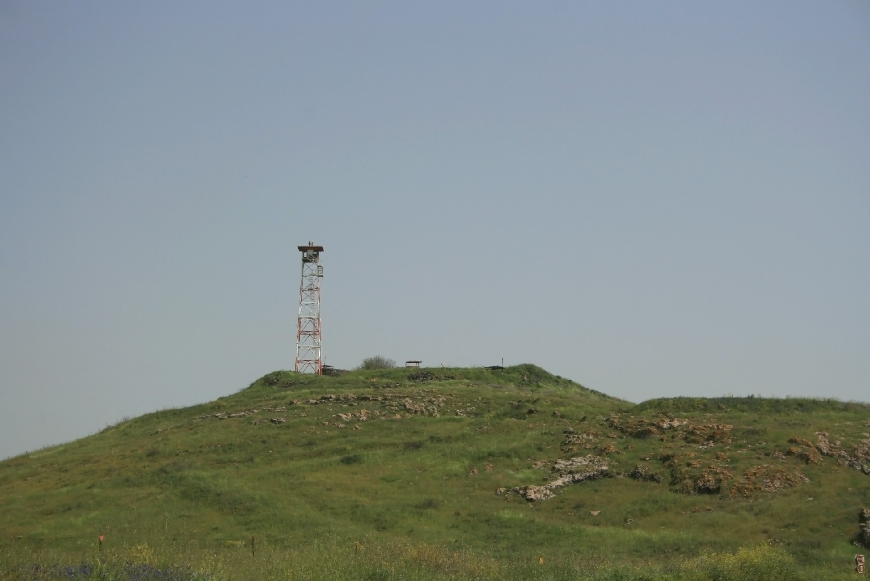 The Juhader (orcha) hill, southern Golan Heights.